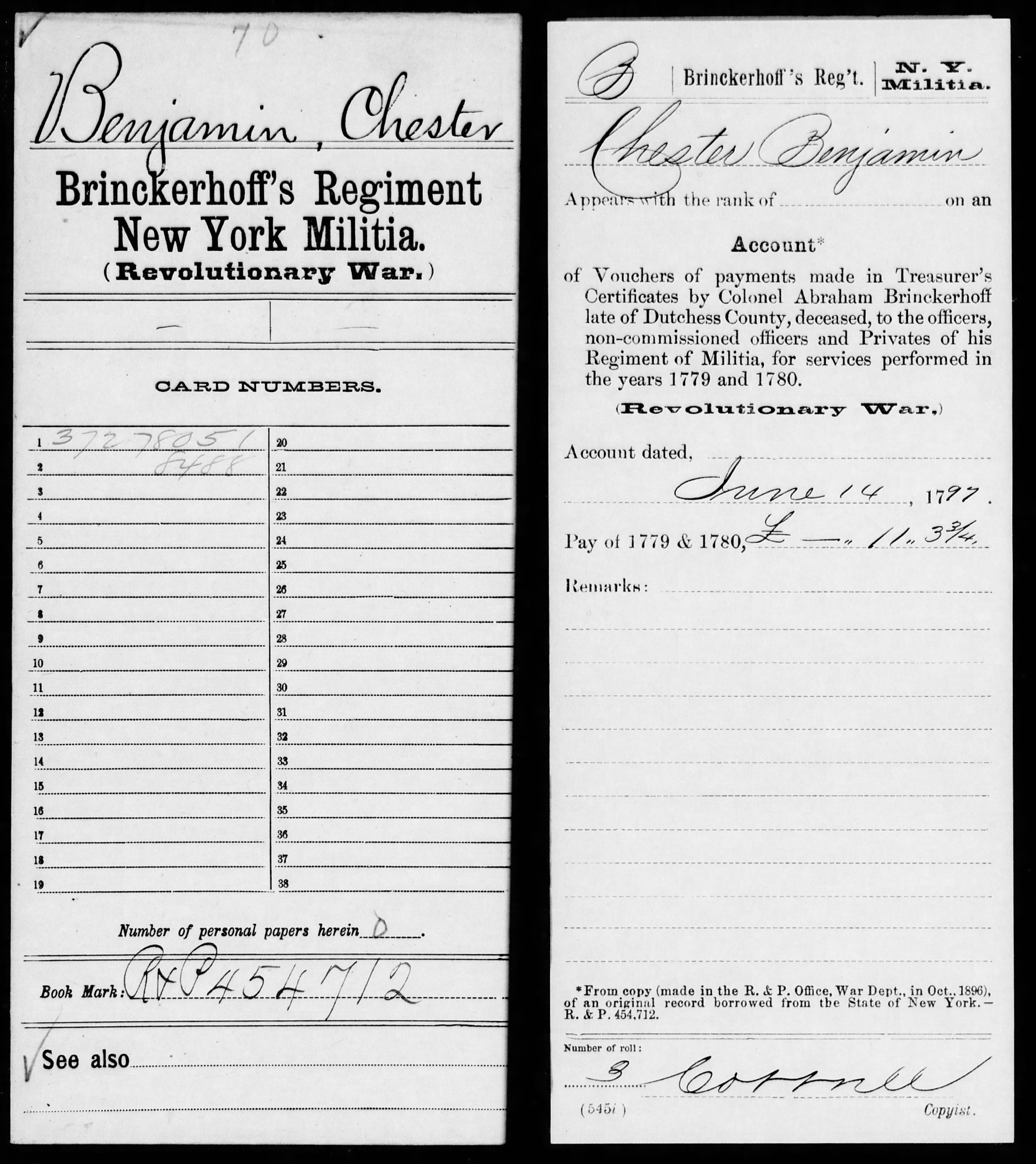 Military Service Records of Chester Benjamin Who Served in Brinckerhoff's Regiment in the American Army during the Revolutionary War